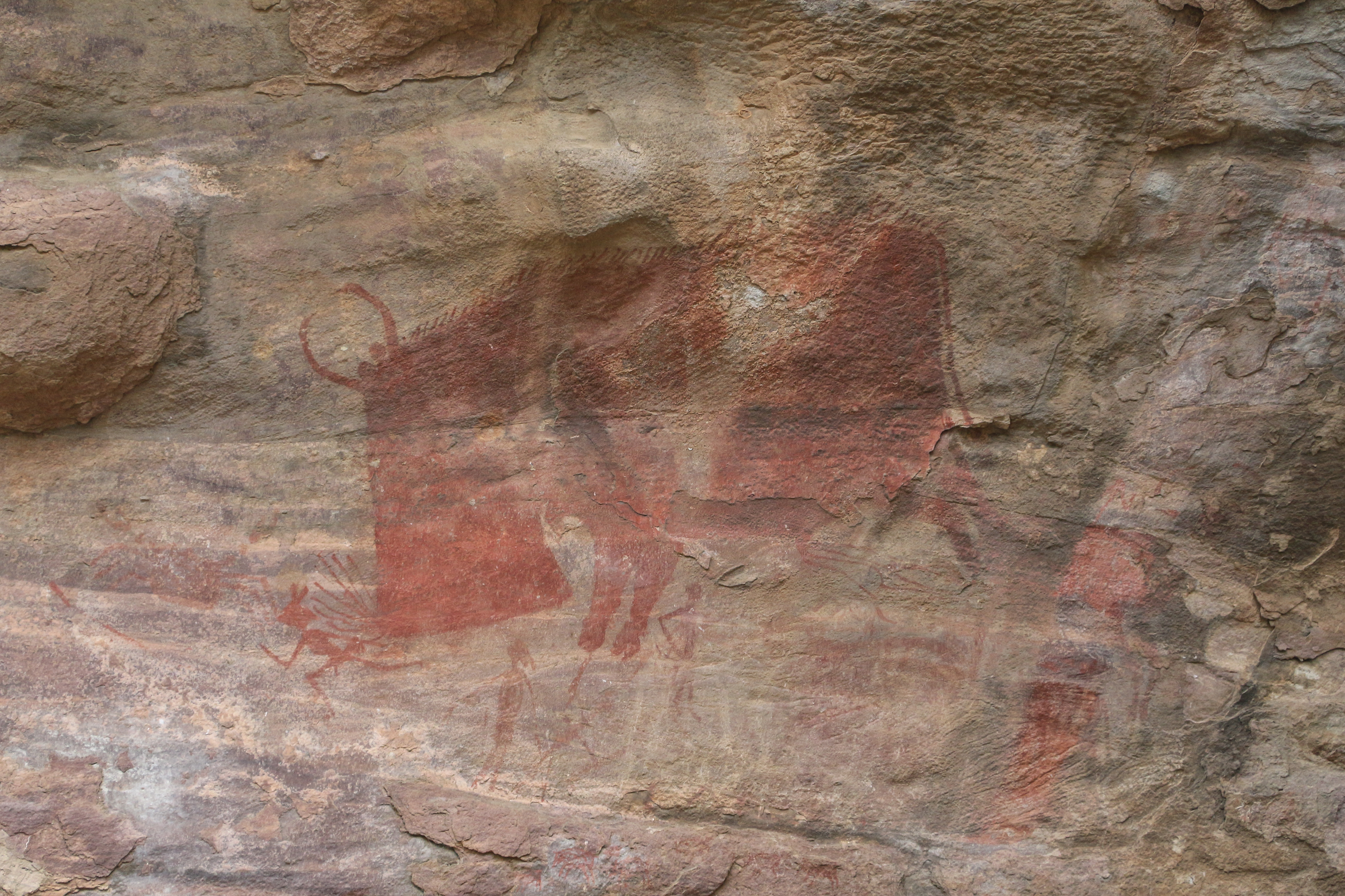 Painting of a horned boar in Rock Shelter 15, Bhimbetka, India